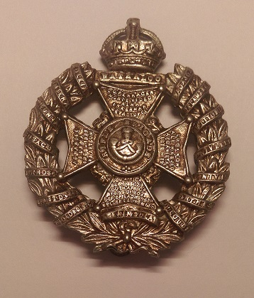 Photo of Rifle Brigade (Prince Consort's Own) Cap Badge from personal collection